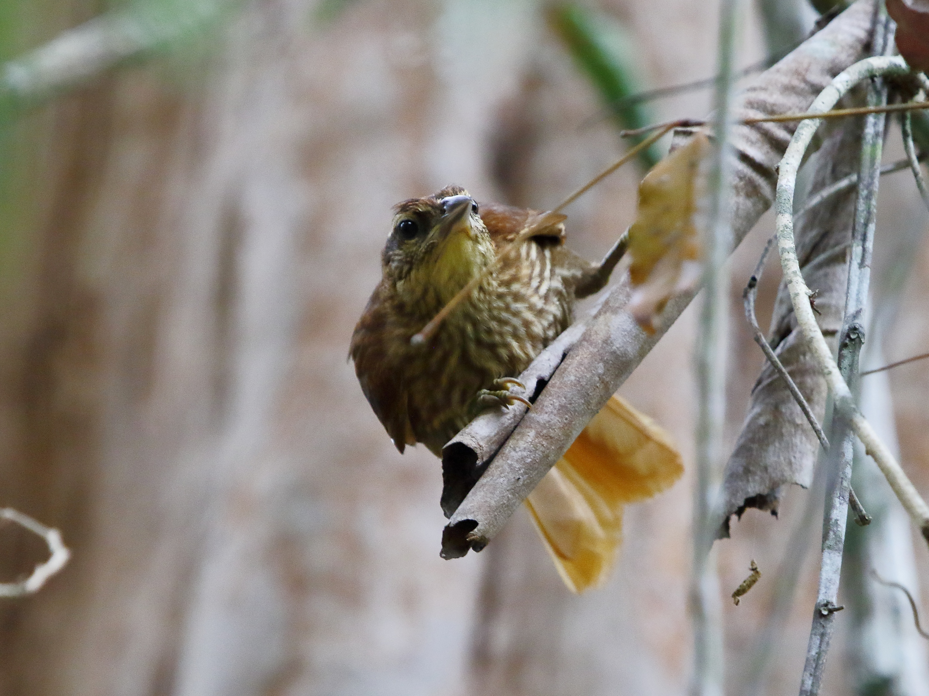 Striated Softail; Sooretama, Espirito Santo, Brazil